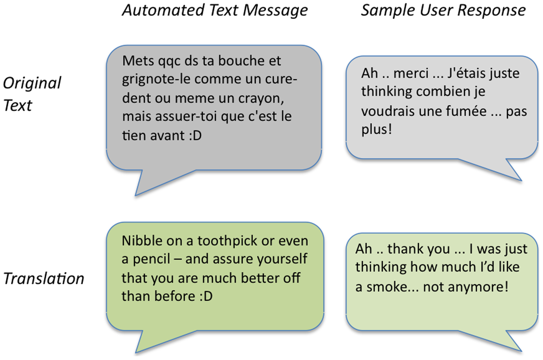 Sample text message conversation with Reactive Text Message keyword in a scheme to help people quit smoking with text messaging 10.1371/journal.pone.0091832